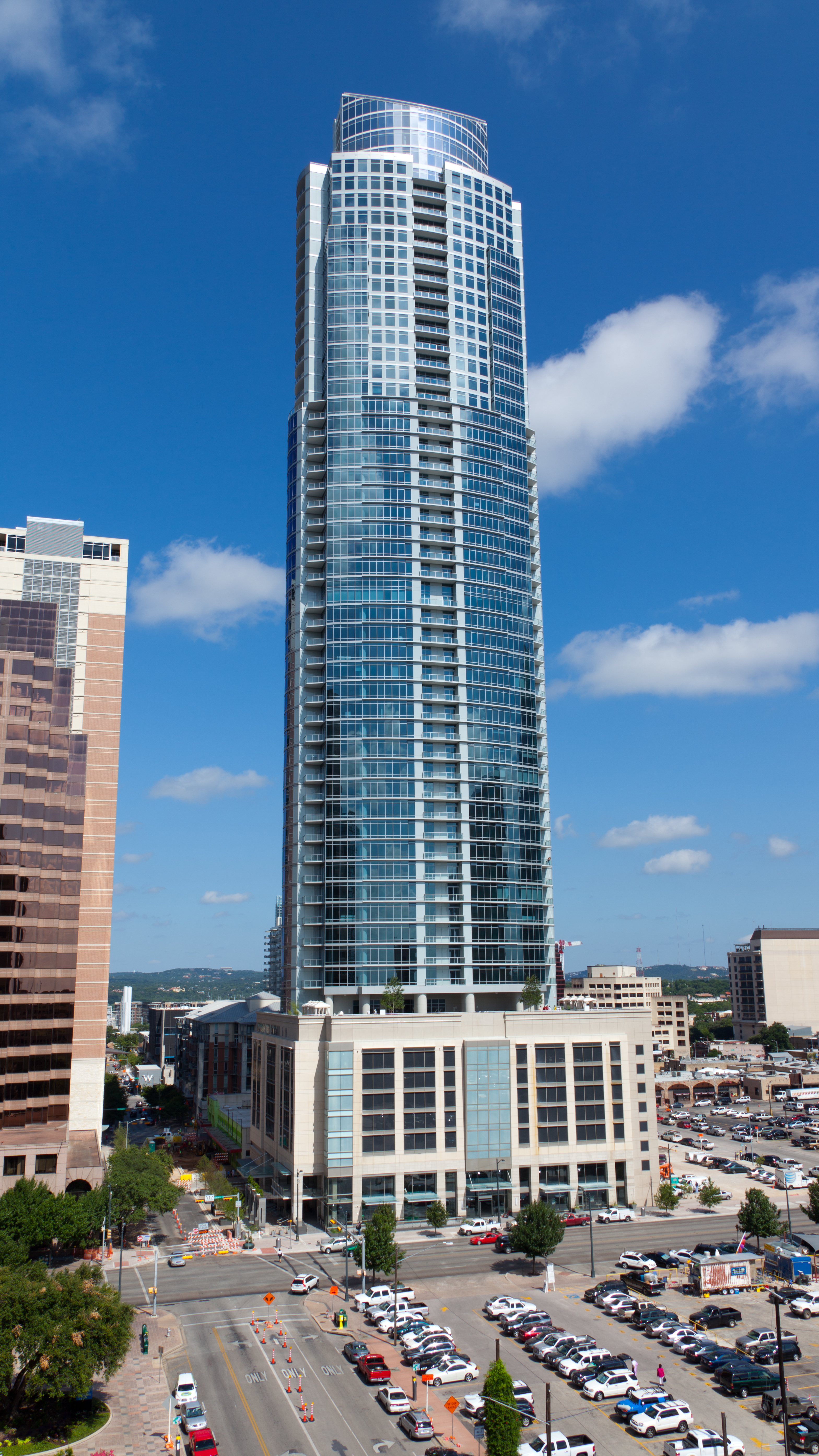 A picture of the Austonian residential highrise in Austin, Tx